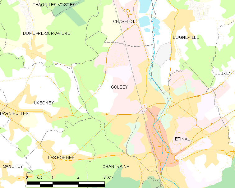 Map of French municipality Golbey